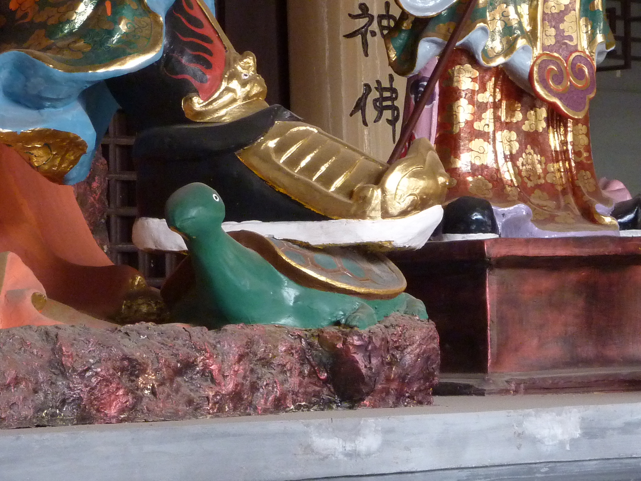 Yangzhou's Wudang Palace. The statue of Zhenwu in the main hall of the temple, the Zhenwu Hall. According to the canon, Zhenwu sits with his left foot resting on the Turtle General, and the right foot, on the Snake General